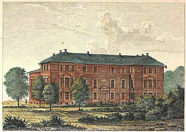 Frederiksberg Åndsvagehospital on Rahbeks Allé in Frederiksberg, Copenhagen, Denmark